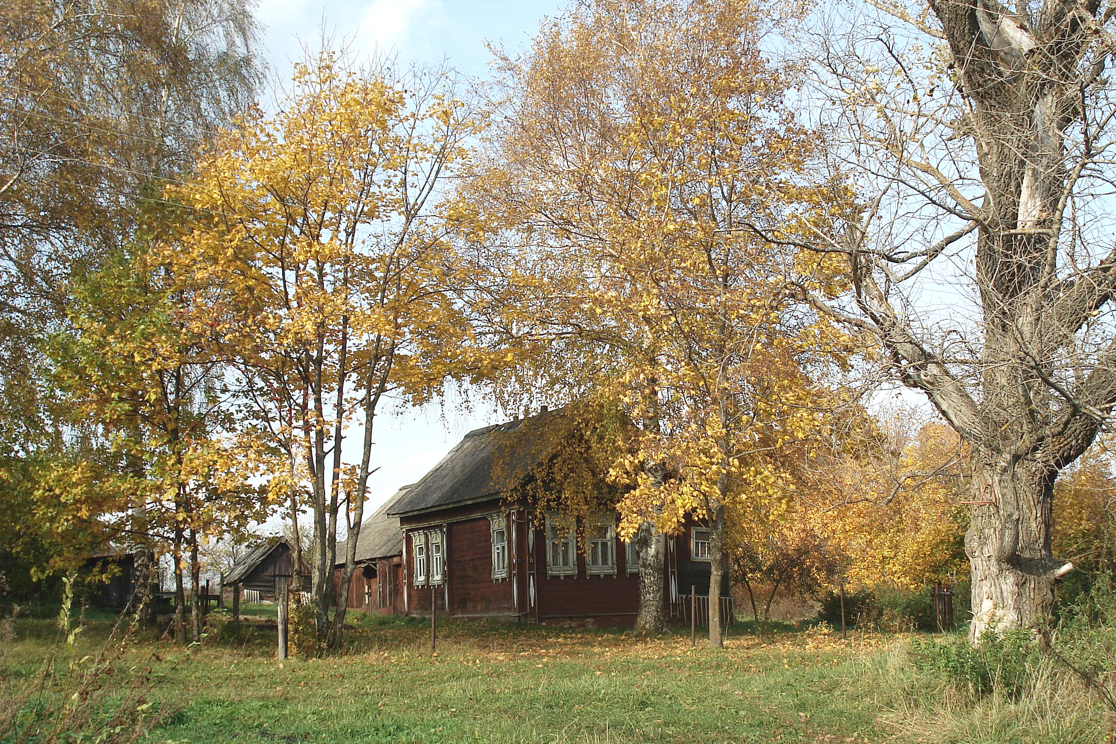 The Village of Maloye Zagarino. Nizegorodskaya oblast. Russia.